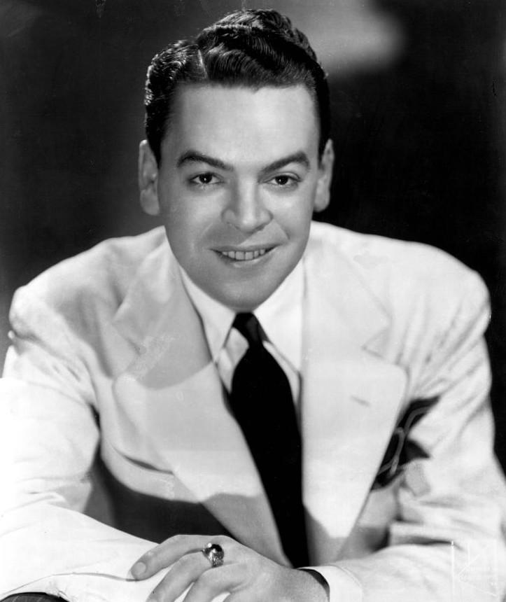 Photo of bandleader Les Brown.